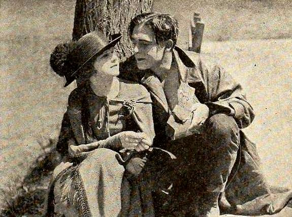 Still from the American film The Lottery Man (1919) with Wanda Hawley and Wallace Reid, on page 31 of the October 1919 Film Fun.